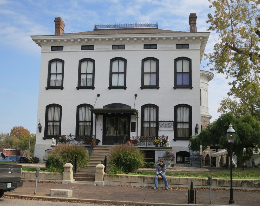 Lemp Mansion in 2012